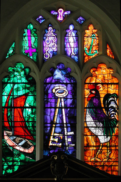 St Peter, Babraham, Cambridgeshire - East window Stained glass by John Piper. Symbols of Saint Peter.